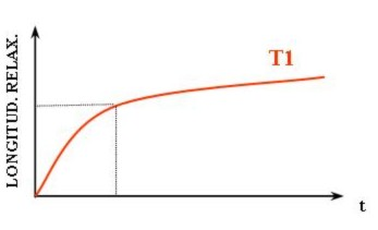 T1 relaxation or longitudinal relaxation curve